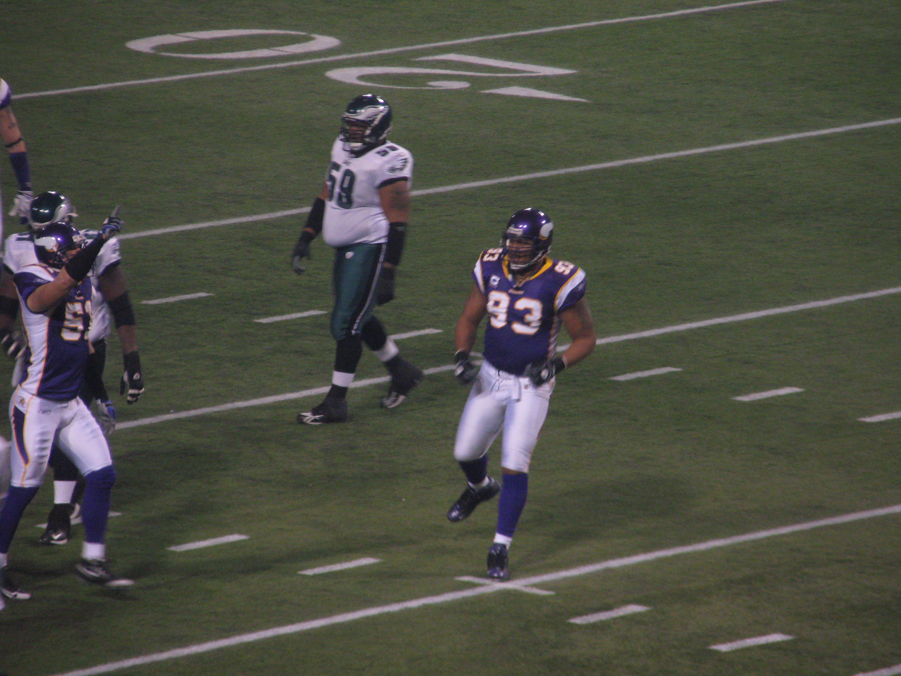 Kevin Williams in 2009 NFC Wild Card Game